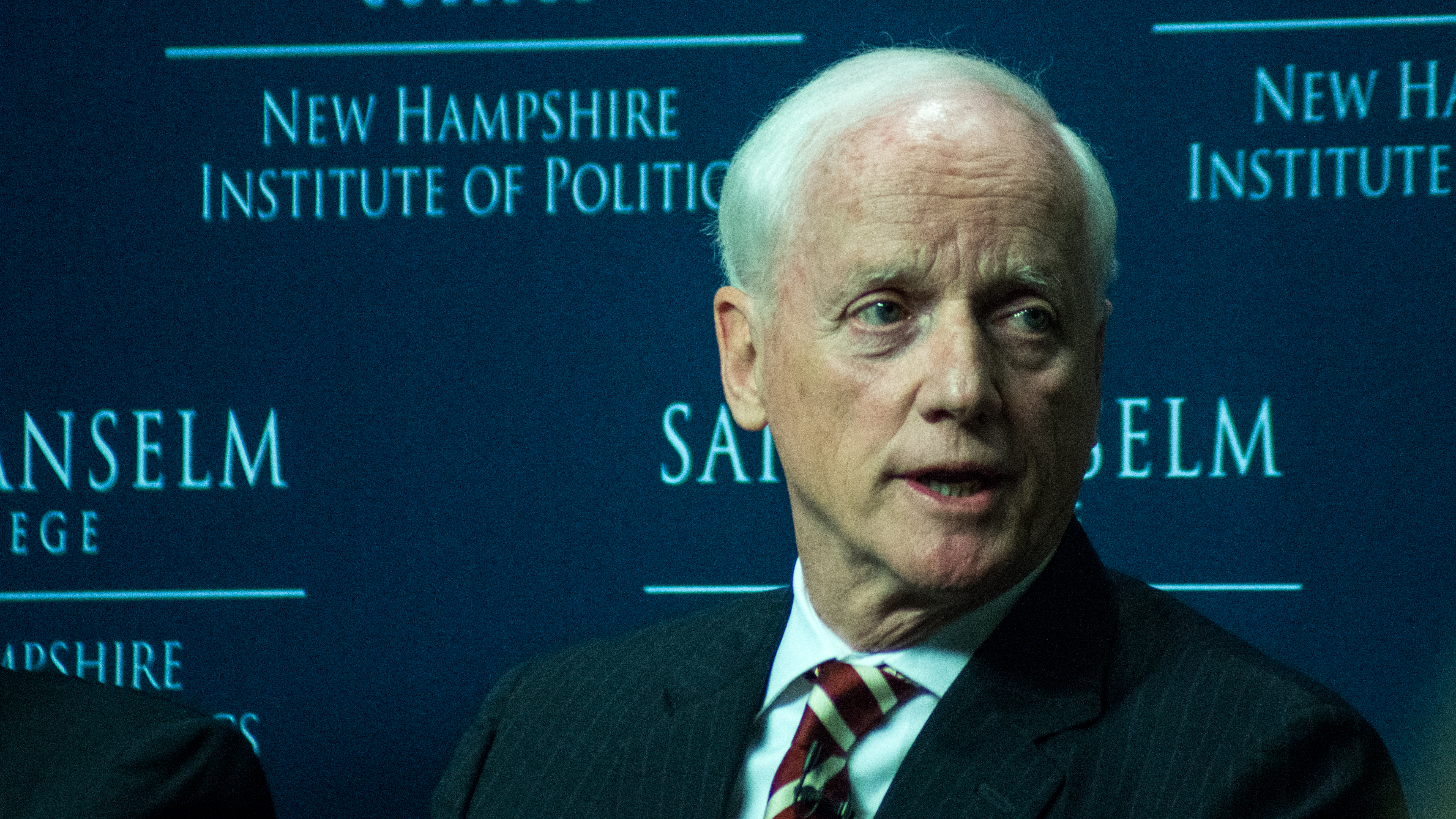 Frank Keating